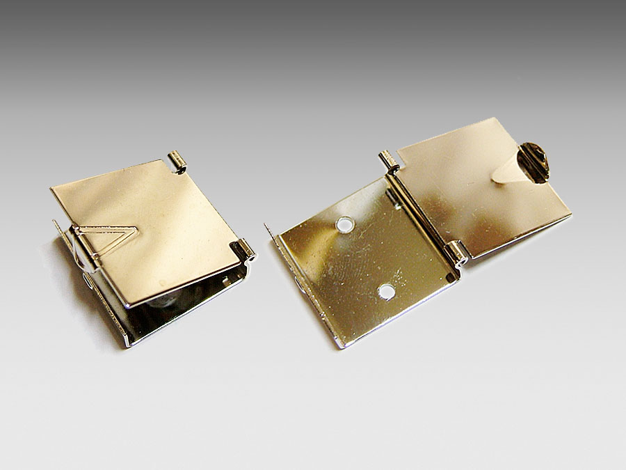 A Metal Work Used In An Obidome Of An Opening And Shutting Type